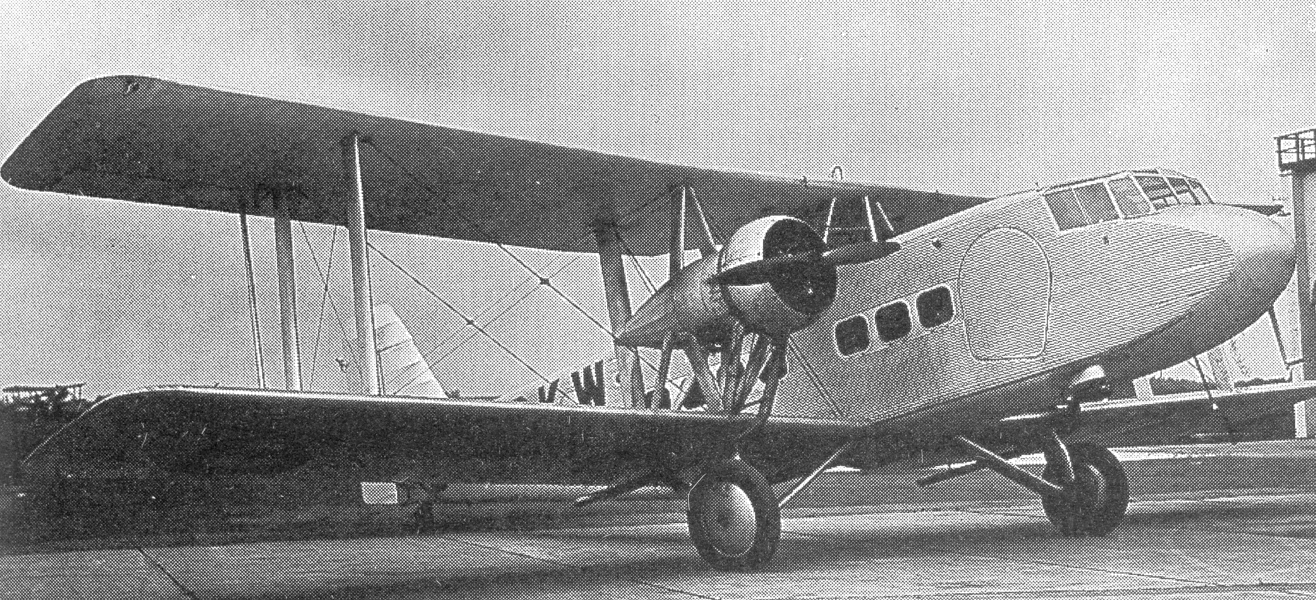 The sole biplane Blackburn C.A.15C, G-ABKW, July 1932